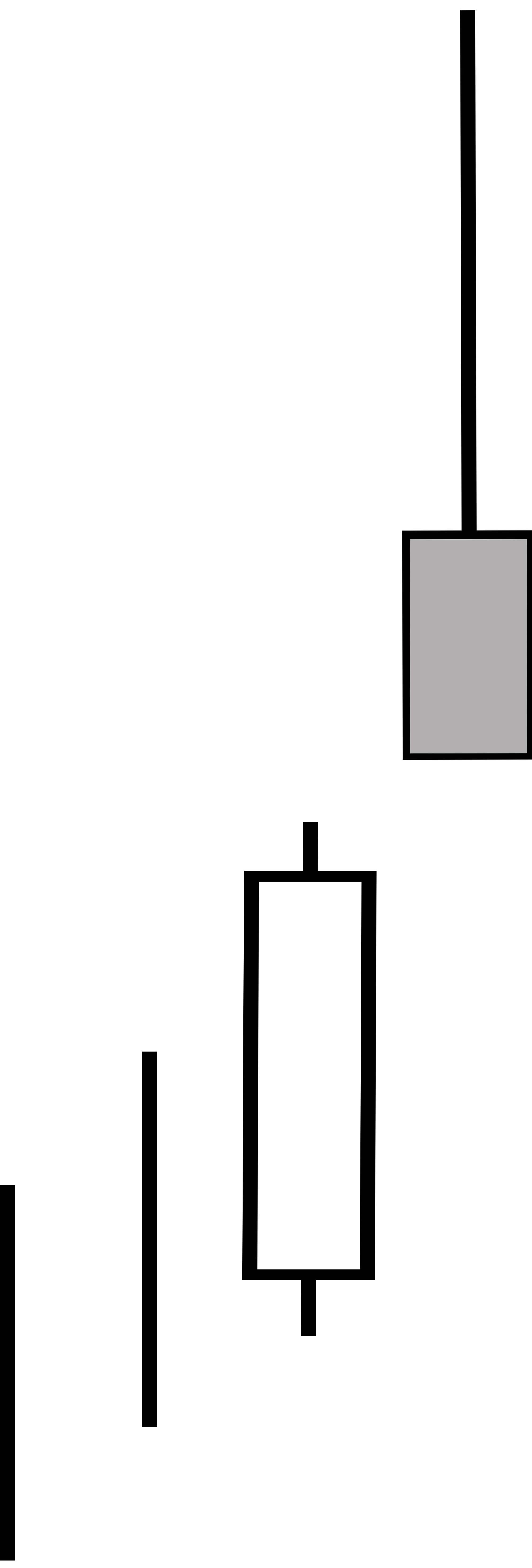 Shooting Star